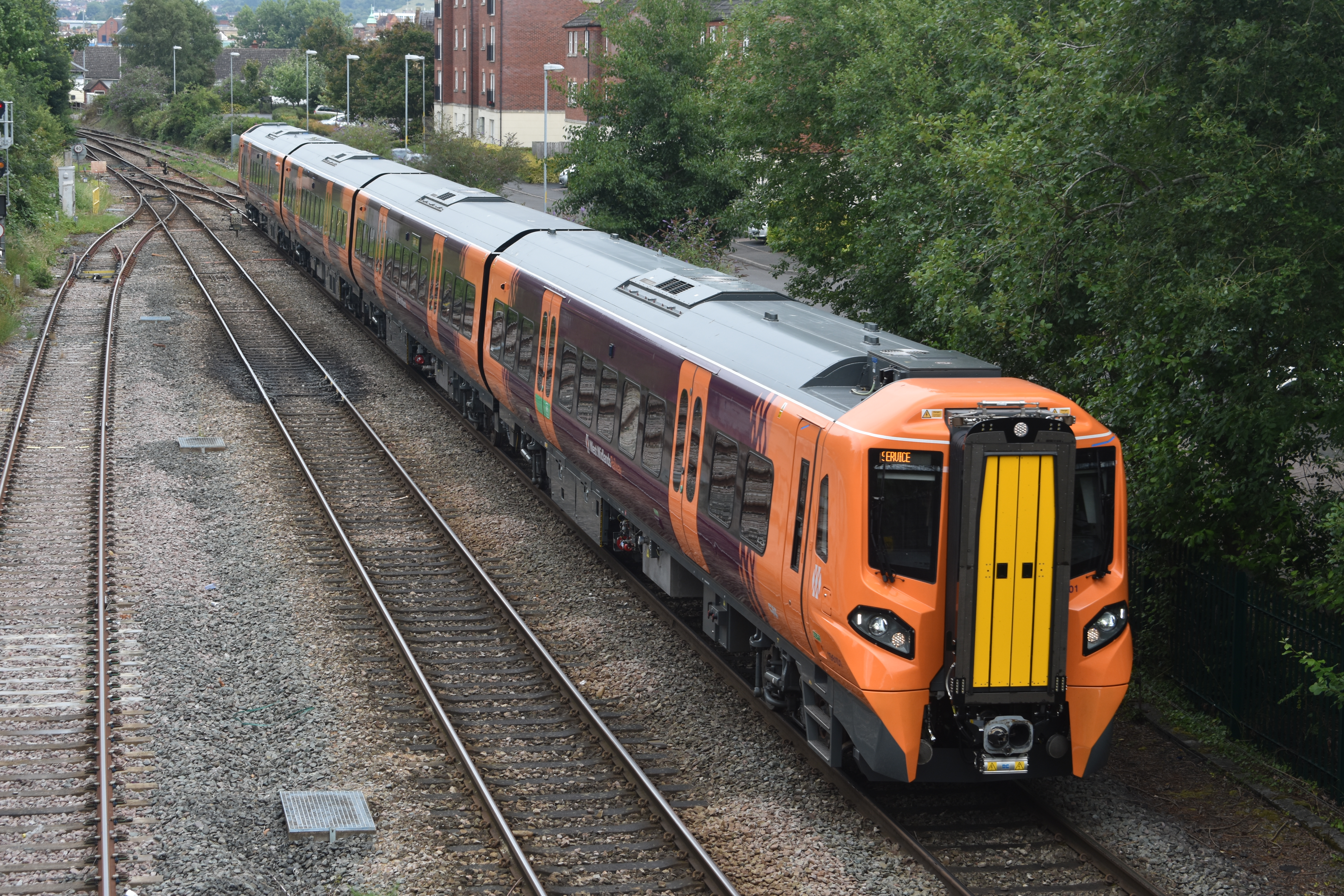 A class 196 (196101) in Worcester on the 23rd July 2020